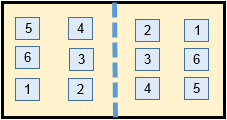 positions on Newcomb ball field